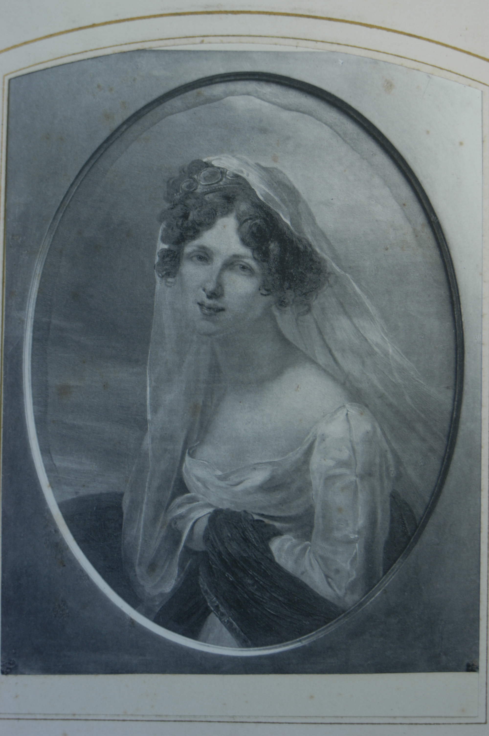 Photo (2014, by me, R. de SalisRodolph (talk)) of a pre-1884 photo of a circa 1810 oil-painting of Henrietta (Harriet), (1785-1856), daughter of Lord Bishop Foster, & 3rd wife to Jerome, Count de Salis. (photo of original painting).jpg